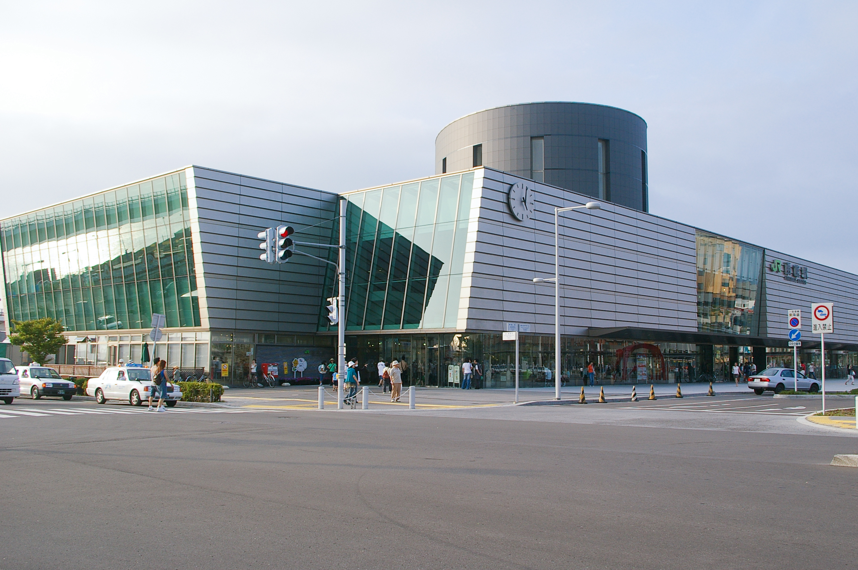 Photograph of Hakodate Station in Hakodate, Hokkaido, Japan.